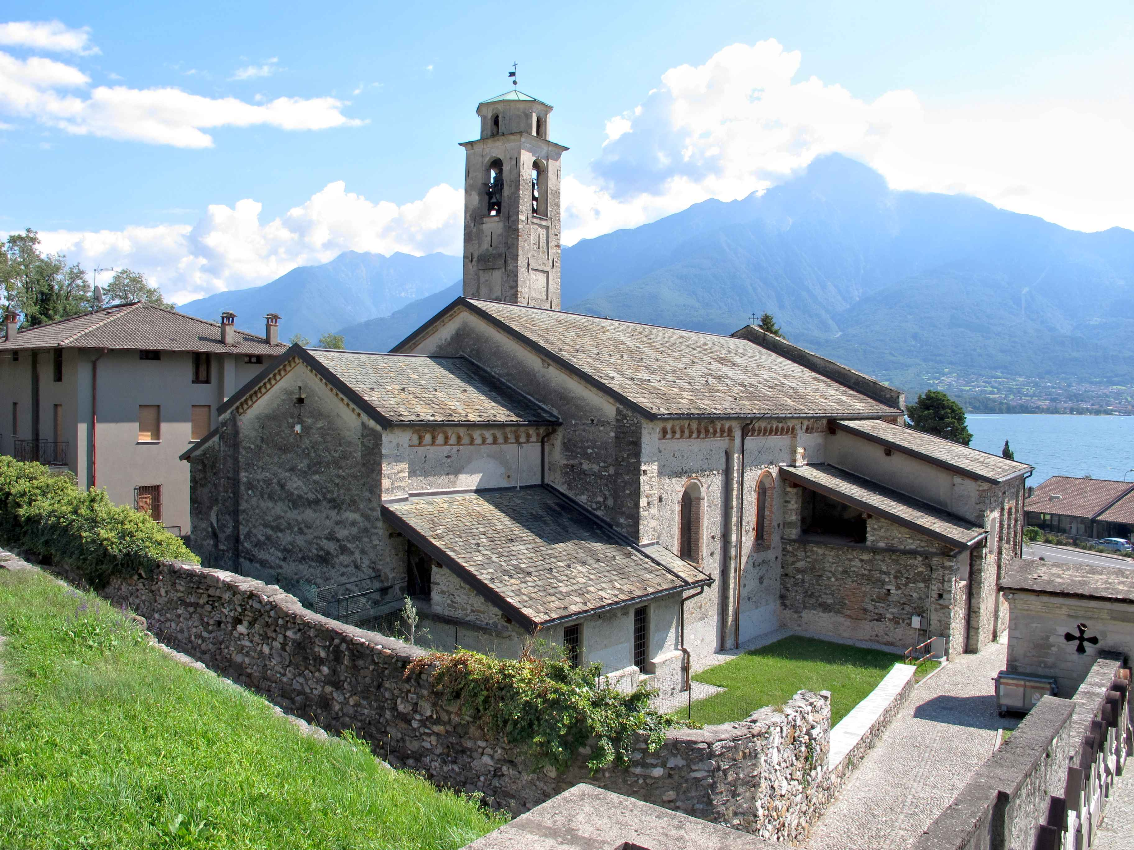 Gera Lario, Italy, Lombardy, Chiesa di San Vincenzo (church)